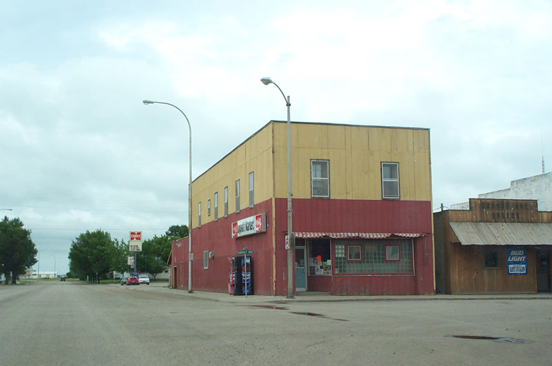 Minto, North Dakota. From .